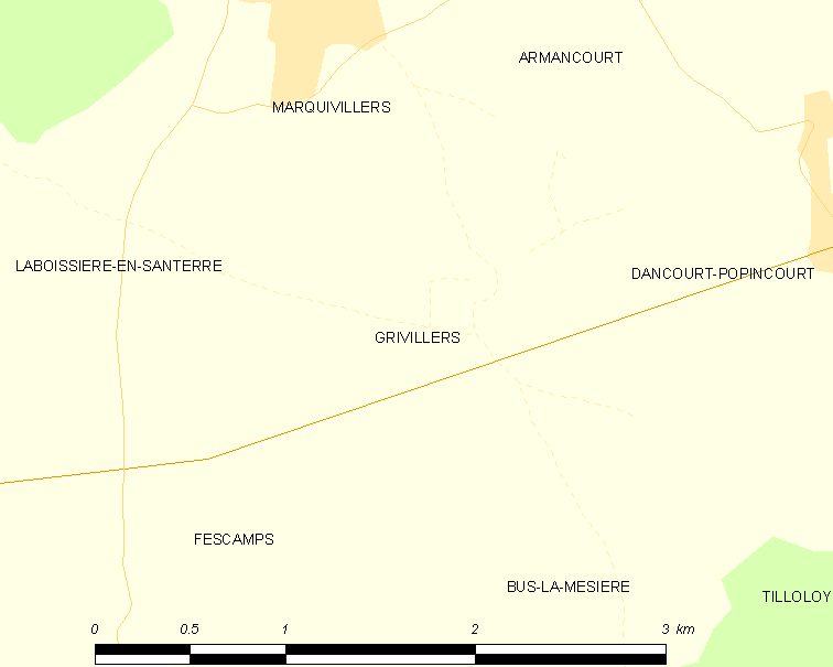 Map of French municipality Grivillers